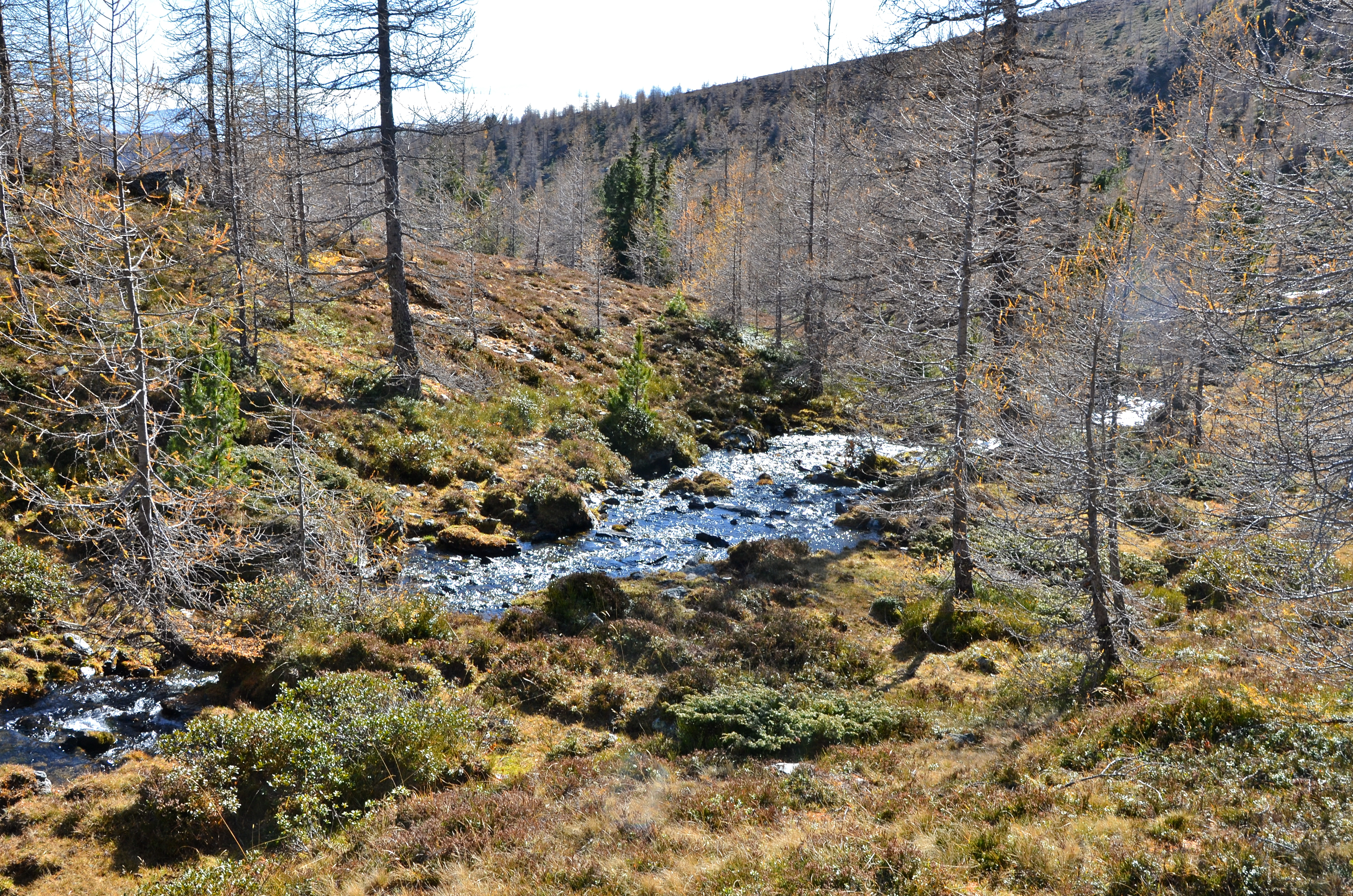 Gurk (1950 m sea level), on the first kilometer after the effluent from the Gurksee within the Nock mountains, Seebachern, municipality Albeck, district Feldkirchen, Carinthia / Austria / EU